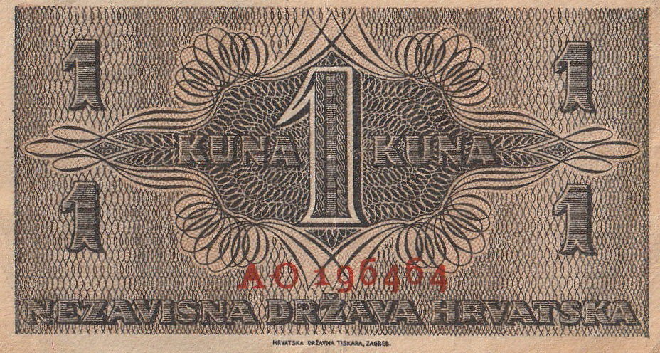 1 kuna 25 rujna 1942